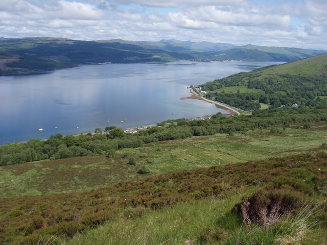 Down the slopes of Meall Reamhar Strachur Bay the nearest part of Loch Fyne.